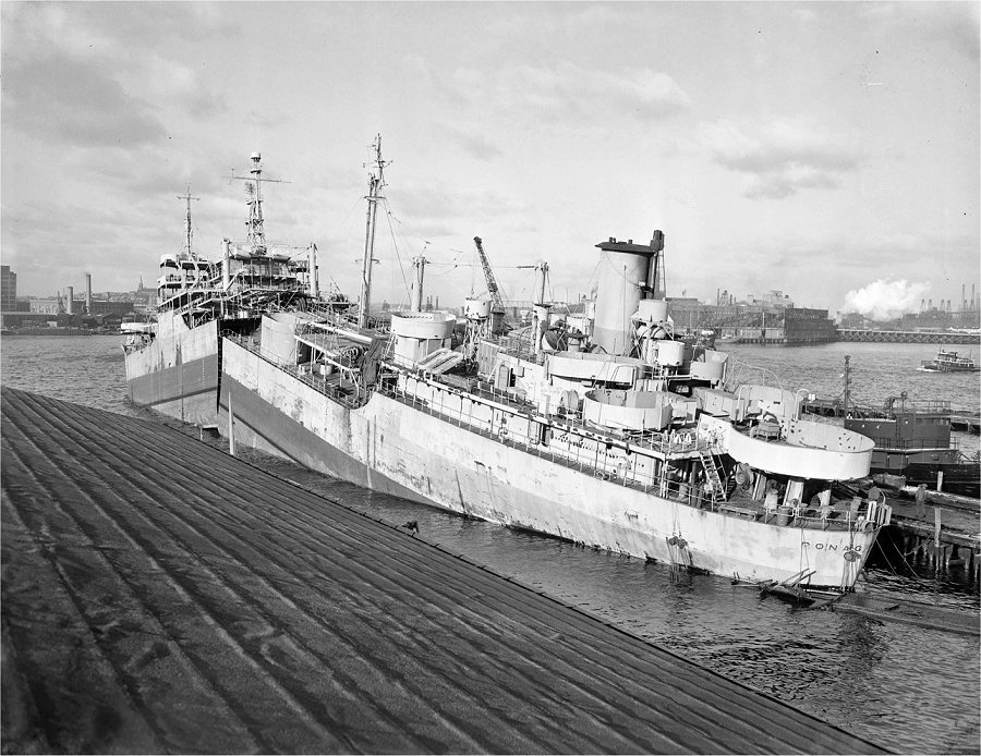 USS Ponaganset (AO-86), at the General Ship and Iron Works, Boston, MA., 9 December 1947, shortly after breaking in half during reactivation. Ponaganset was one of 24 tankers that the Navy reacquired in late 1947 to bring fuel oil for the fleet from the Persian Gulf. Fractures like this had been a problem since late 1942 in war-built welded ships, particularly in Liberty ships and T-2 tankers. Ponaganset was replaced in the Navy's reactivation plan by Mission Santa Ana (AO-137).